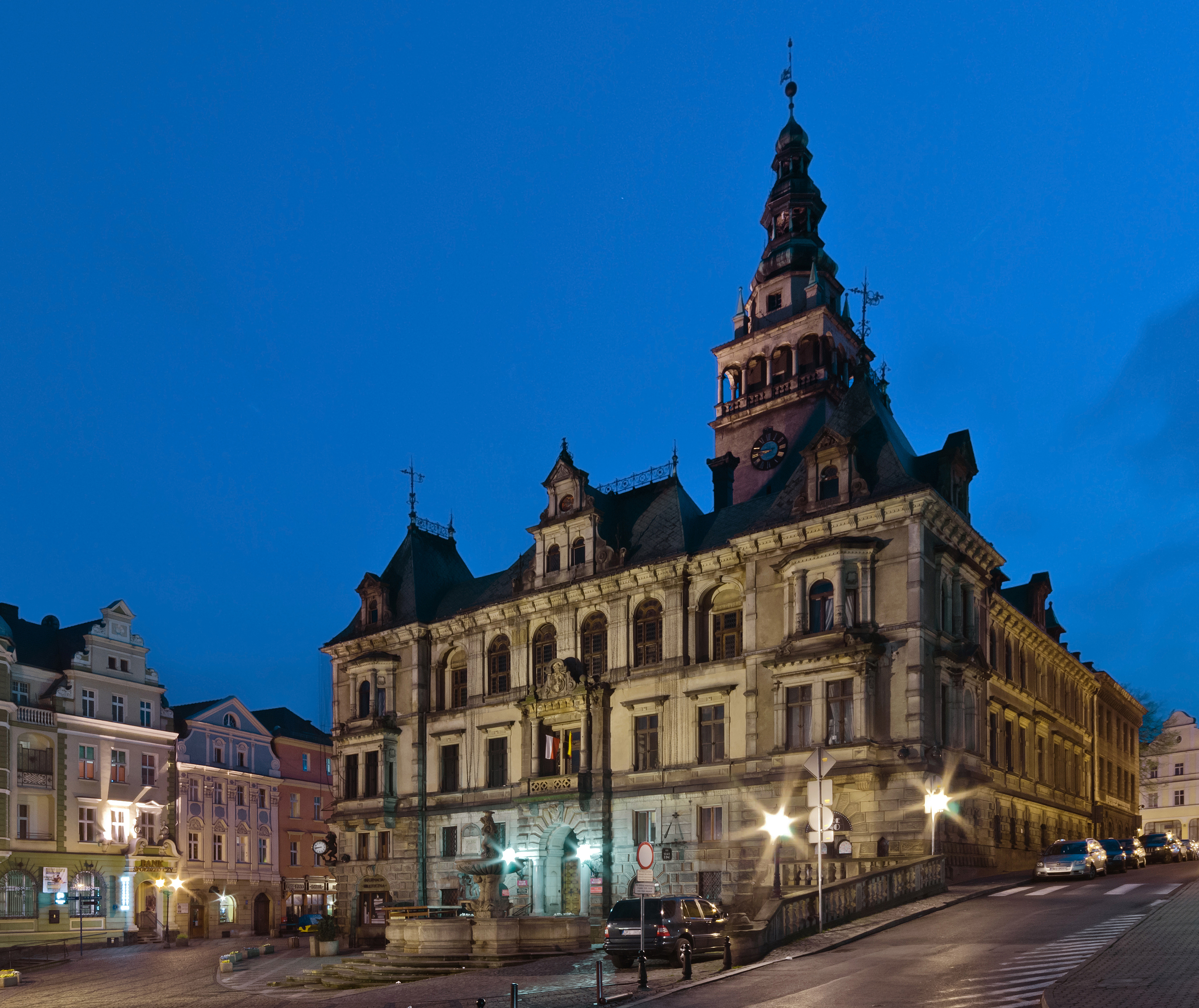 Town hall in Kłodzko